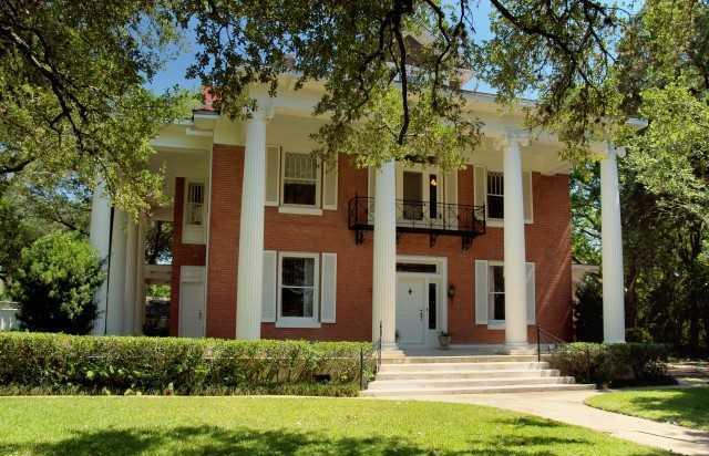 The O.B. Robertson House was built in 1913 for a banker at 1520 St. Louis St., Gonzales, Texas.